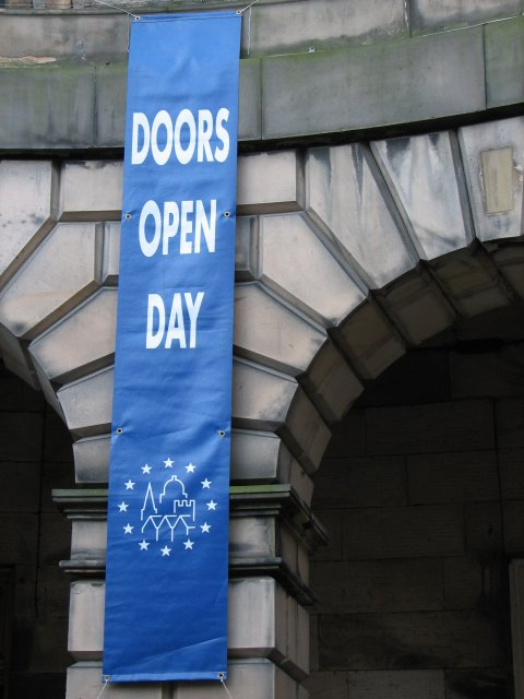 Doors Open Day A banner advertising Doors Open Day in Parliament Square. This annual Cockburn Association organised event sees many buildings opened to the public for free. This includes private and public buildings, the latter often opening up more rooms than the public usually get to see. An ideal chance for middle class Edinburgh to have a good nosey.